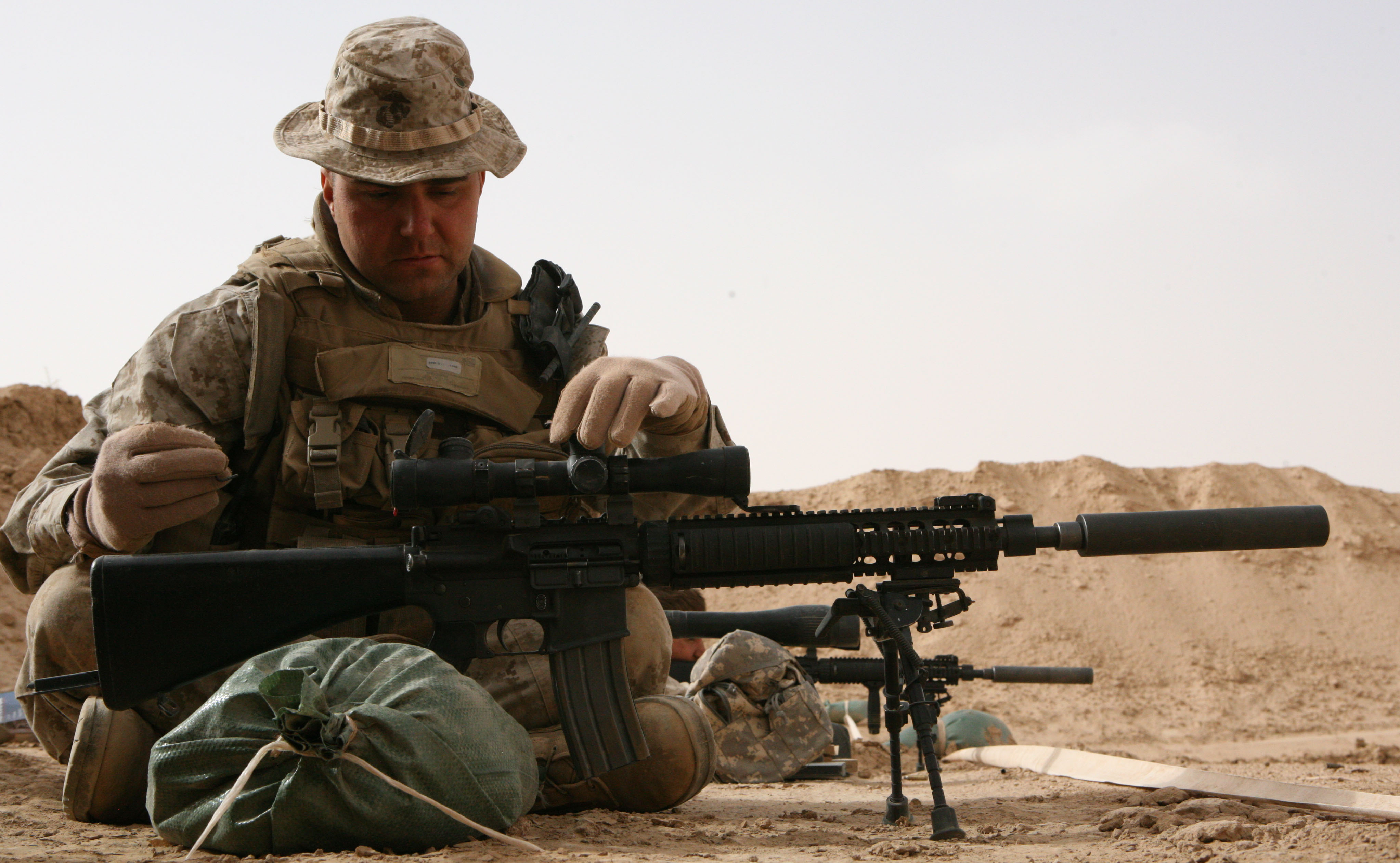 Sgt. Robert Montanaro, from 3rd Light Armored Reconnaissance Battalion, readjusts his sights on a Mark-12 designated marksman rifle during a live-fire exercise at Sahl Sinjar, Iraq, April 27, 2009. Montanaro says he likes the addition of the suppressor, because of its ability to make shooters stealthier.